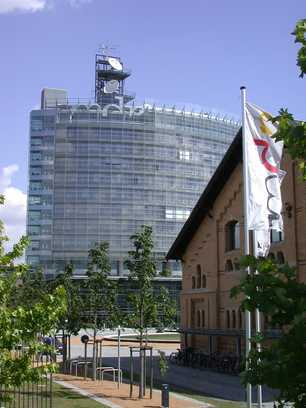 main building of the MDR in Leipzig